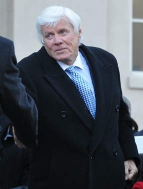 John Y Brown, Jr. congratulates Mayor Greg Fischer.